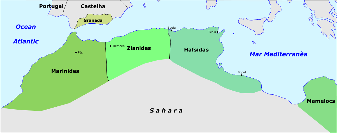 Magrèb dins lo corrent dau sègle XVI.